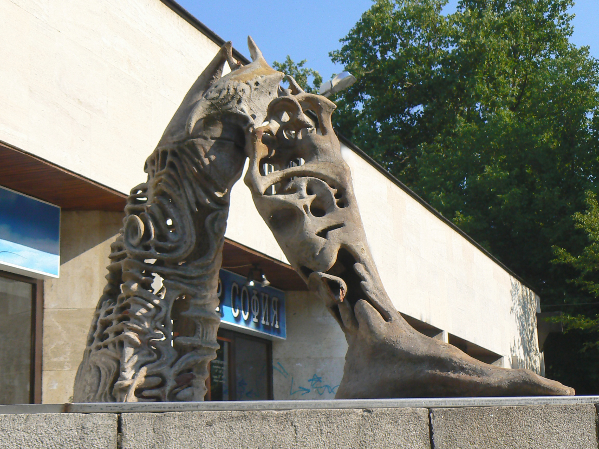 The sculpture at the entrance of "Sofia" Theatre, Sofia, Bulgaria